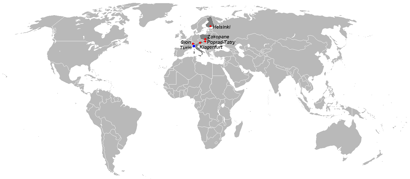 The candidate cities to host the 2006 Winter Olympics, derived from blank world map.